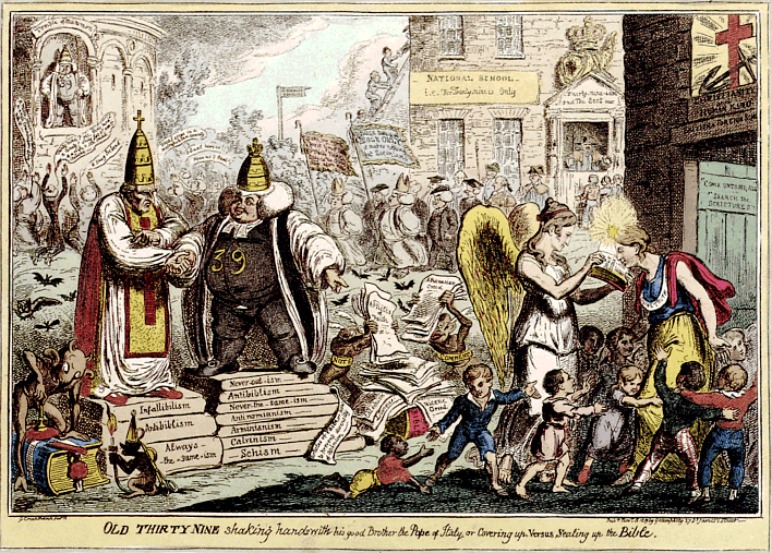 Old Thirty Nine shaking hands with his good brother the Pope of Italy, or covering up versus sealing up the Bible, 1819 ("39 articles" refers to the Church of England)